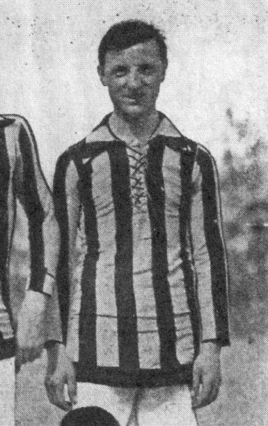 Italian footballer Luigi Cevenini (III) with Inter Milan in the 1920–21 season.